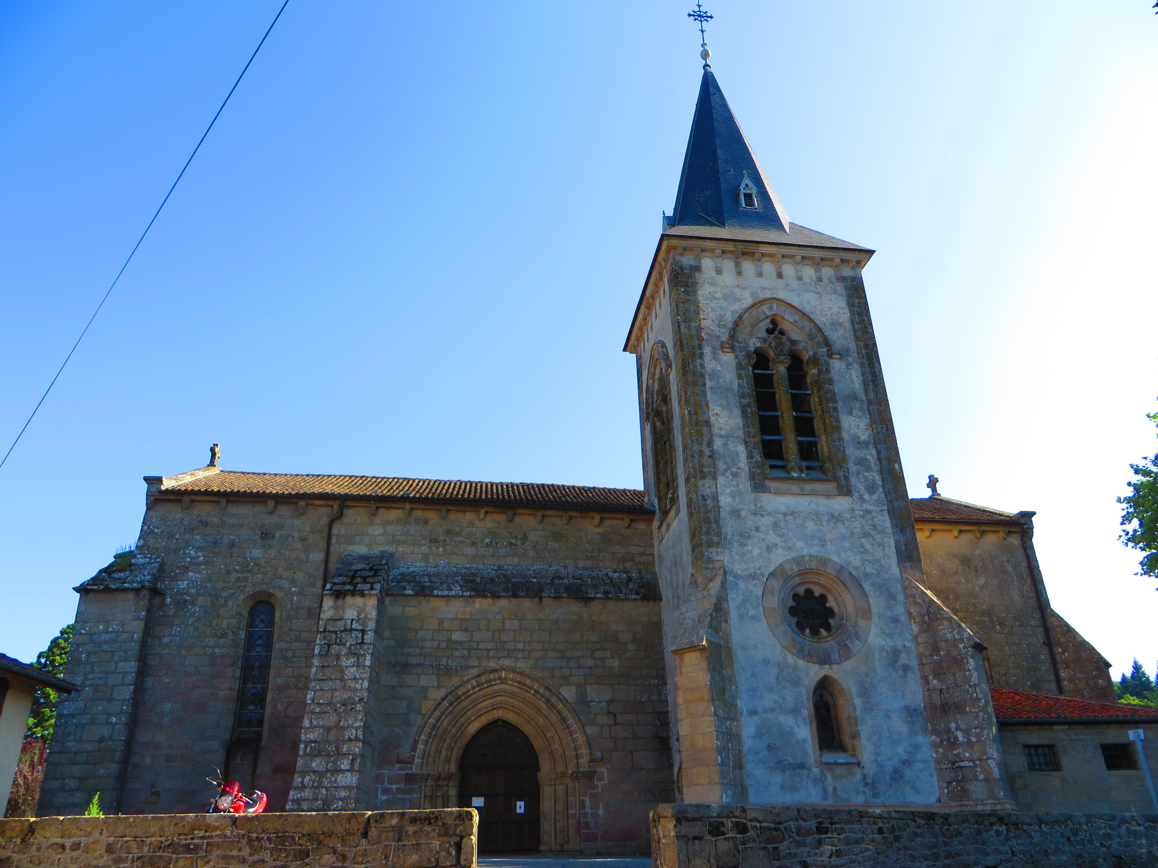 church the Nieul